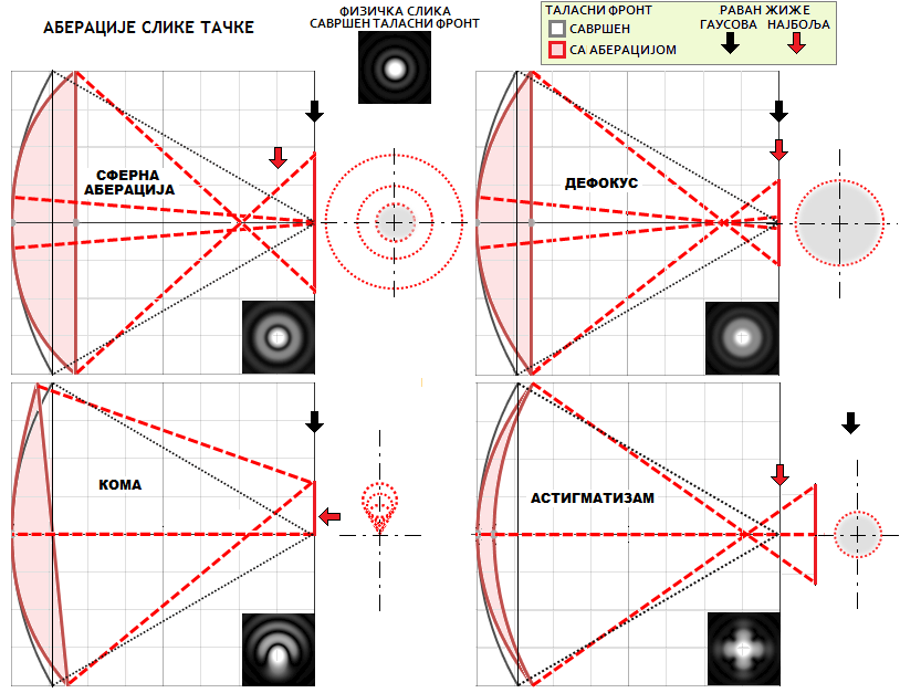 МОНОХРОМАТСКЕ АБЕРАЦИЈЕ СЛИКЕ ТАЧКЕ